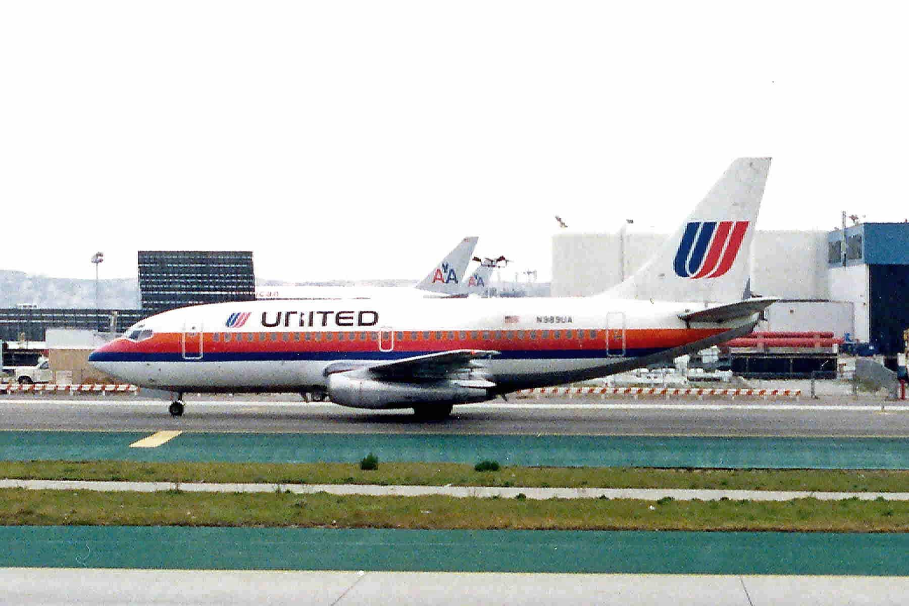 One of the sistership of UA585.